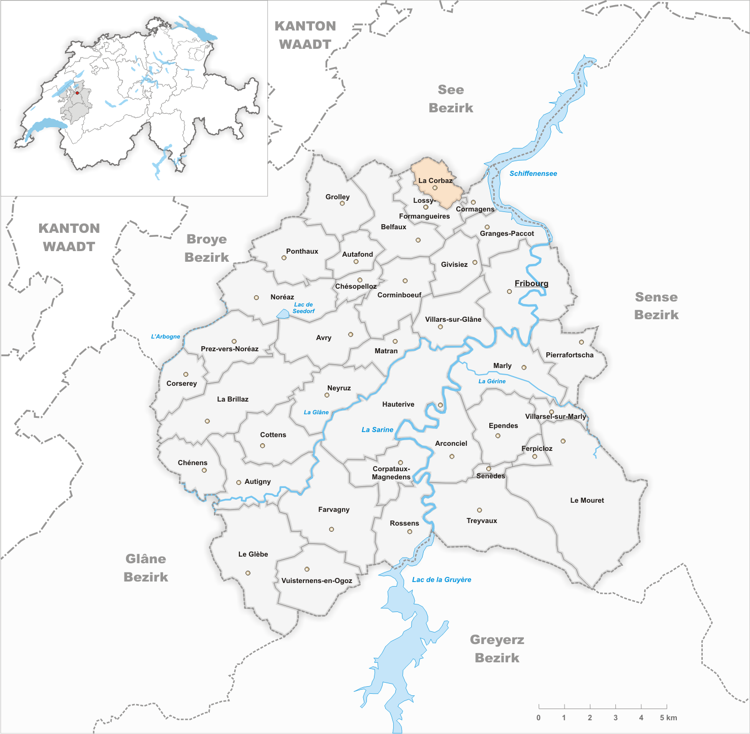 Municipality La Corbaz Artist: Tschubby